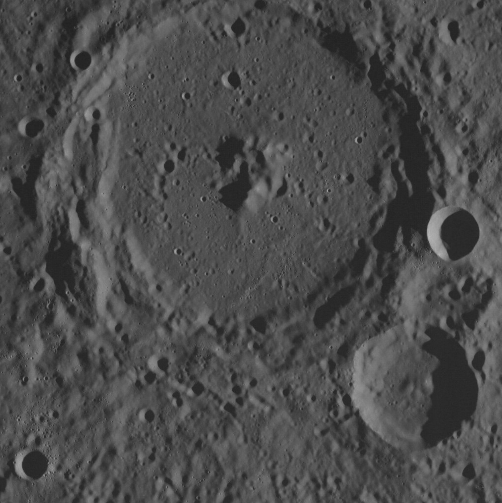 Gaudí crater on Mercury. MESSENGER WAC. Emission Angle: 0.3 Incidence Angle: 79.4 Latitude: 76.7 Longitude: 68.3 Phase Angle: 79.5